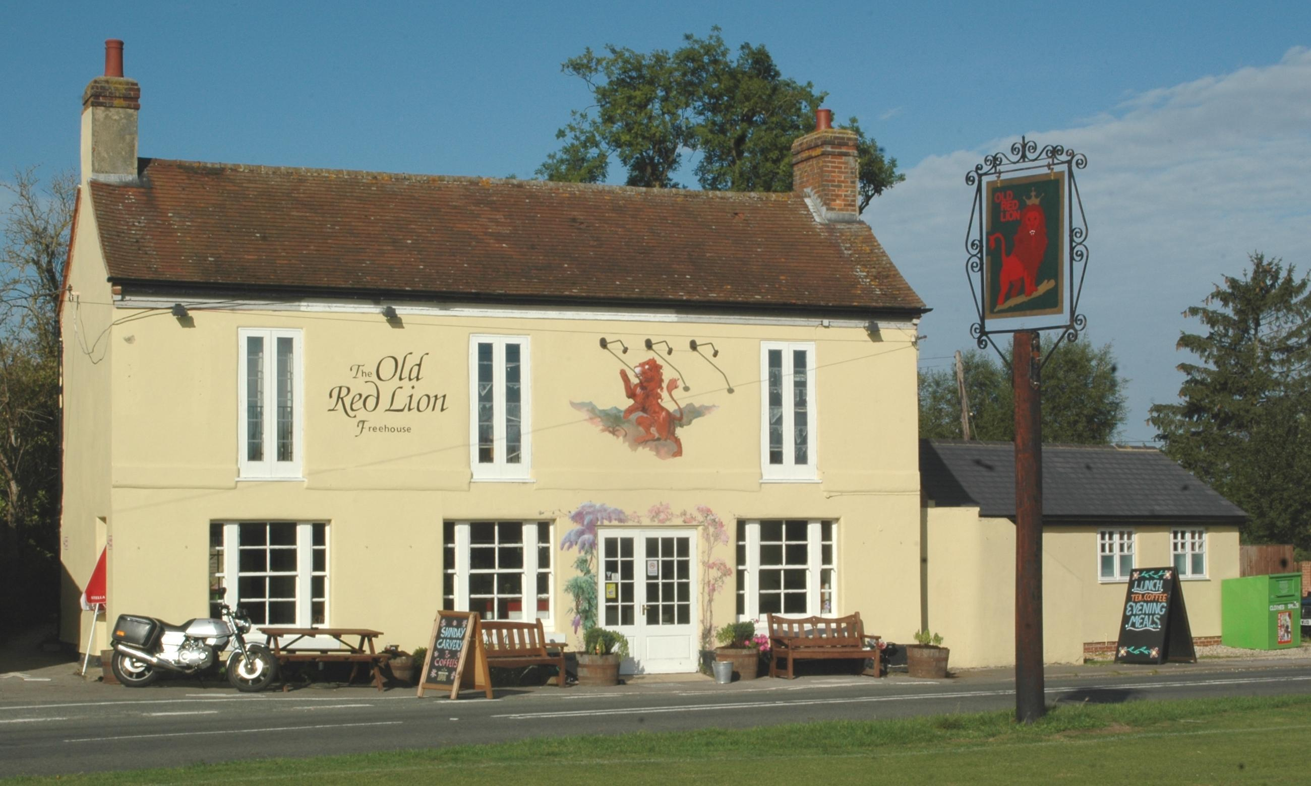 The Old Red Lion public house, Tetsworth, Oxfordshire